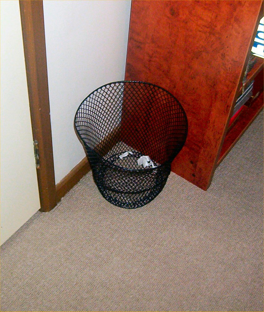 A picture taken, of a Wastepaper bin.